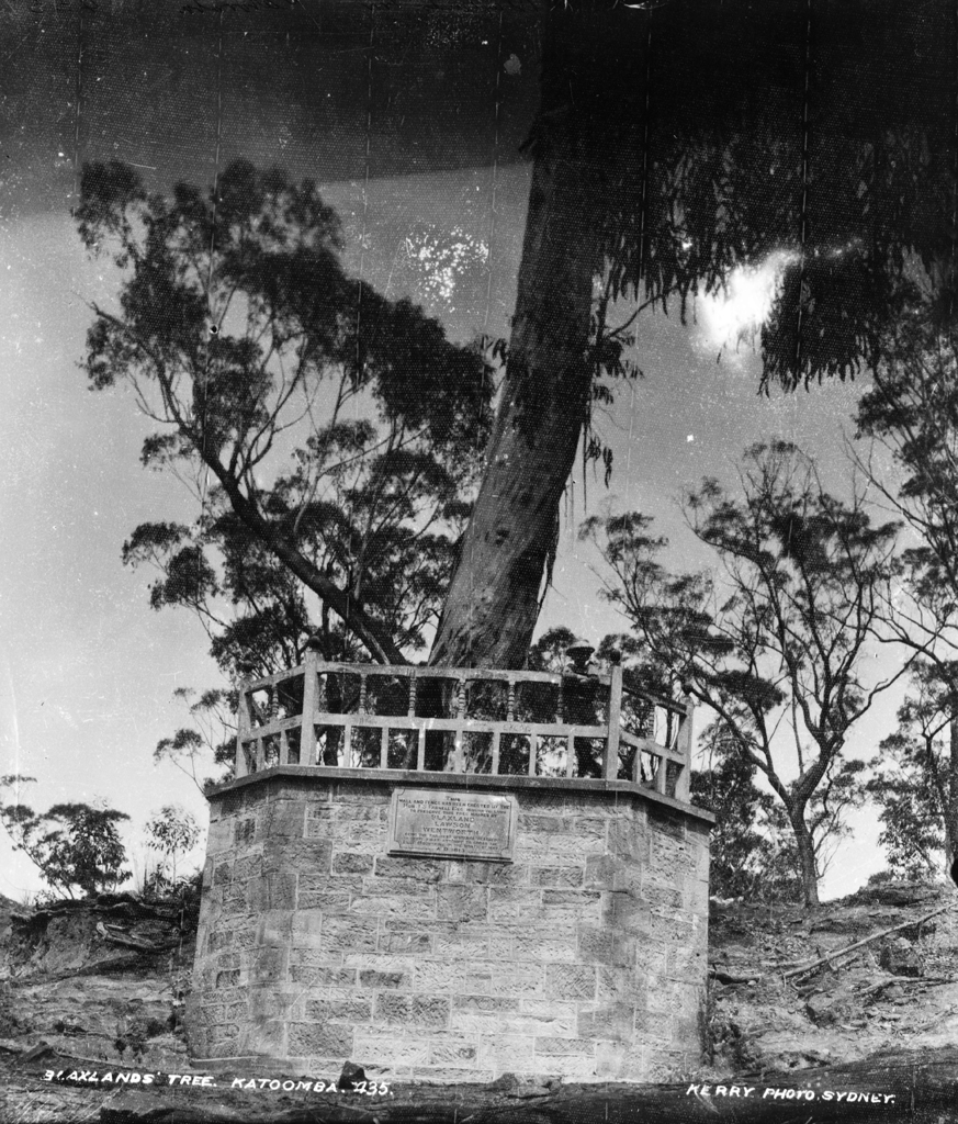 a collection of historical pictures in the Public Domain from the Powerhouse Museum.